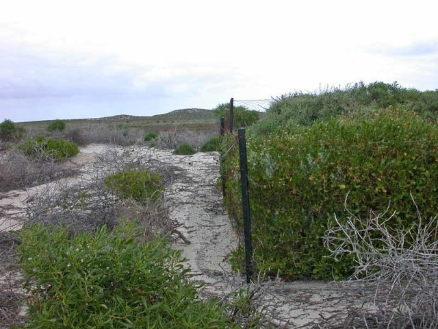 This is a photograph of the vegetation of North Island in the Houtman Abrolhos. Note the difference in vegetation density on different sides of the fence line ; this is due to overgrazing by an unchecked population of the introduced Tammar Wallaby (Macropus eugenii).